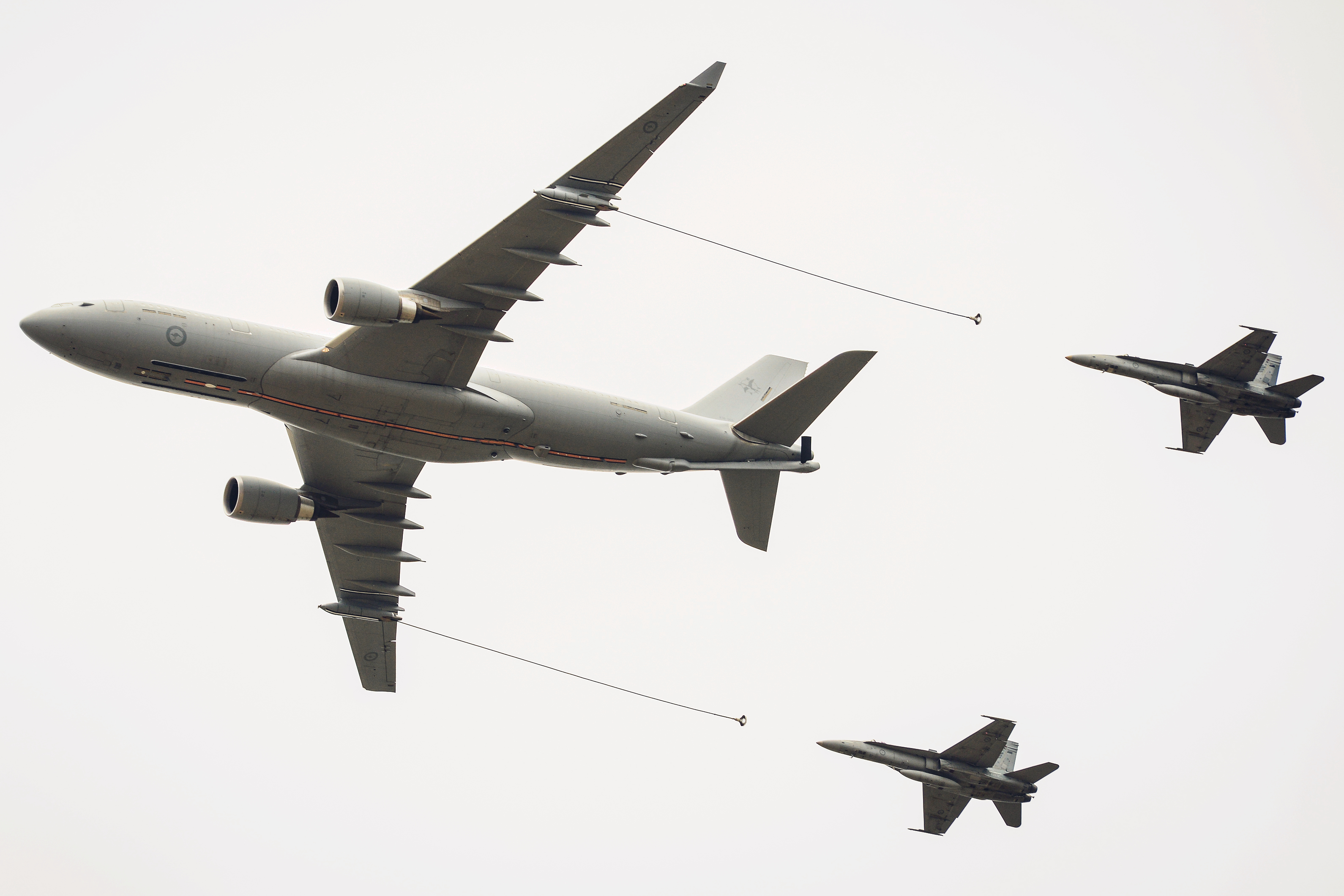 Centenary of Military Aviation 2014 Air Show (RAAF Williams, Point Cook)